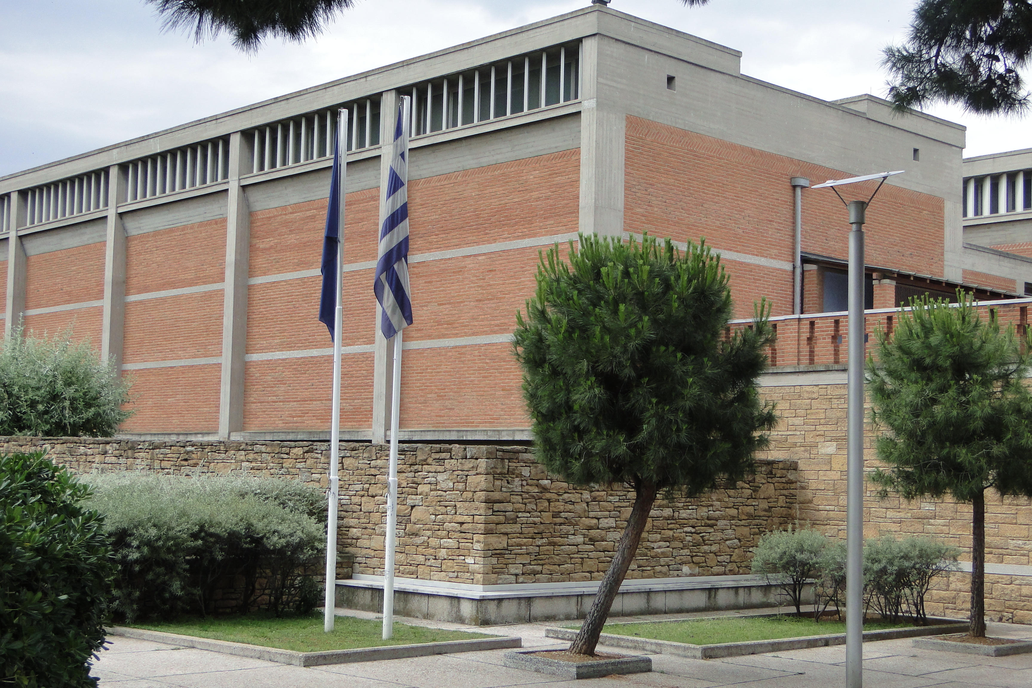 Museum of Byzantine Culture, Thessaloniki.